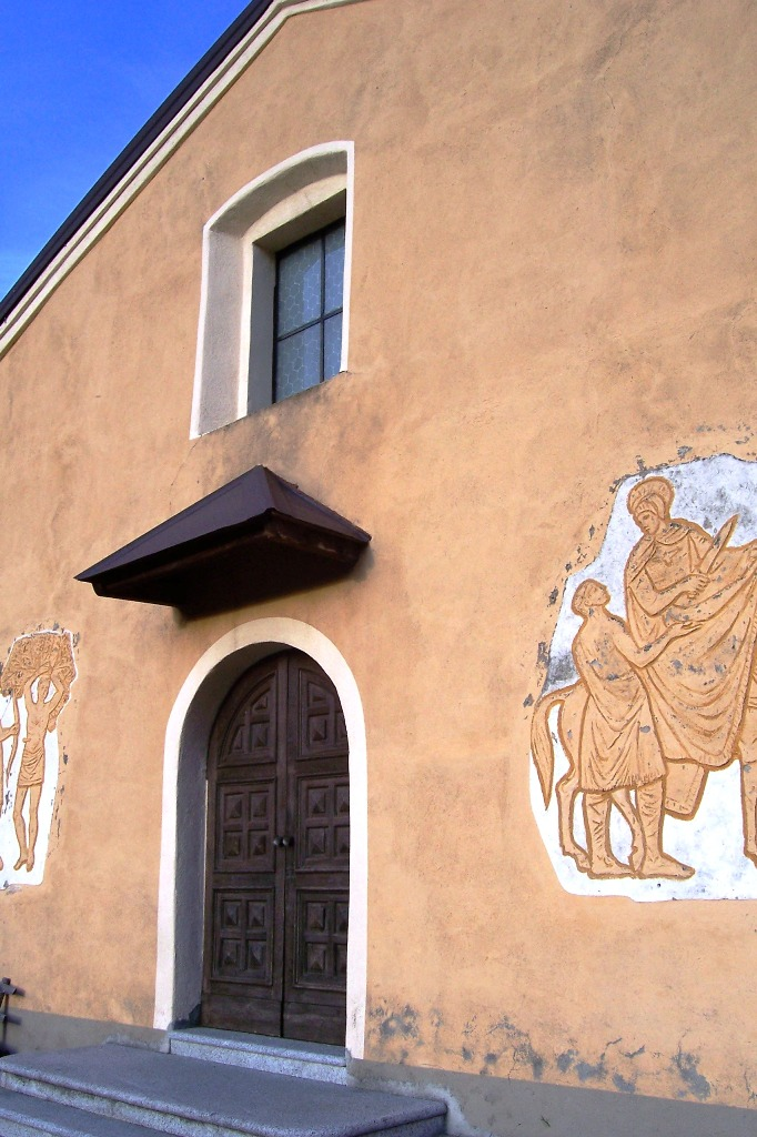 Ronco, Val Camonica